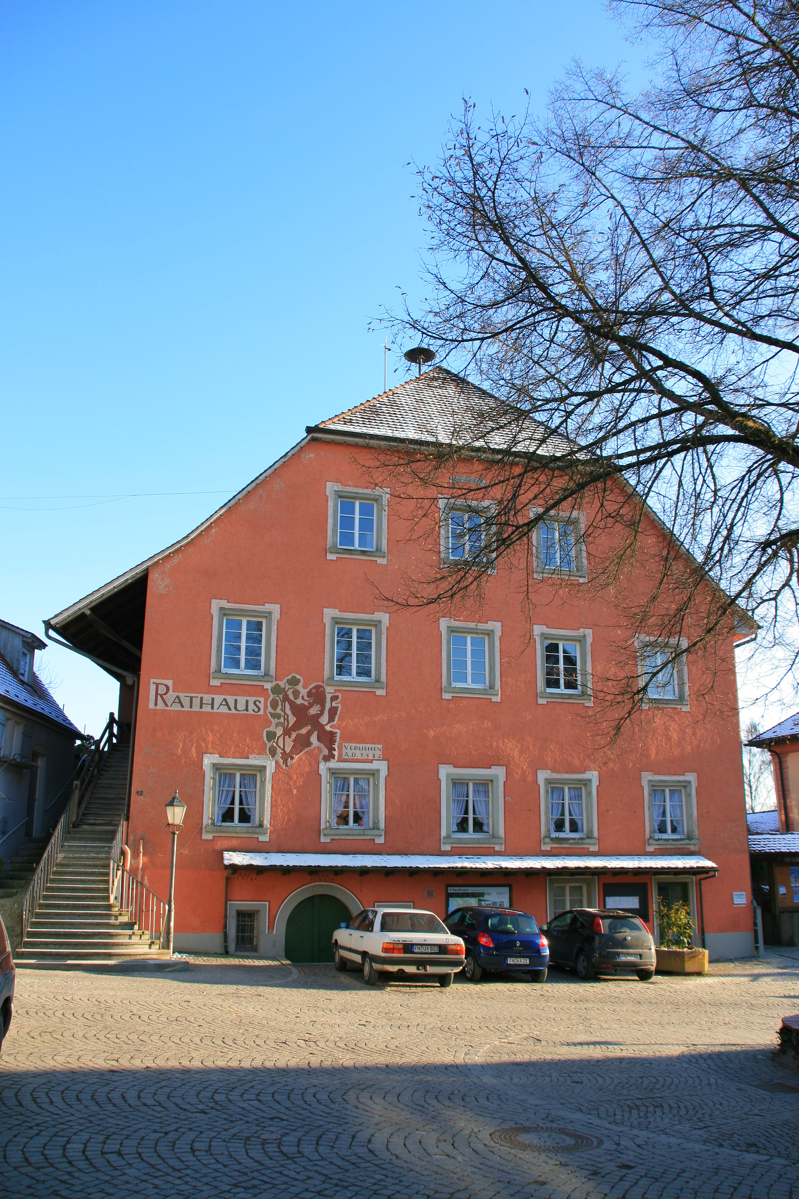 Townhouse of Sipplingen